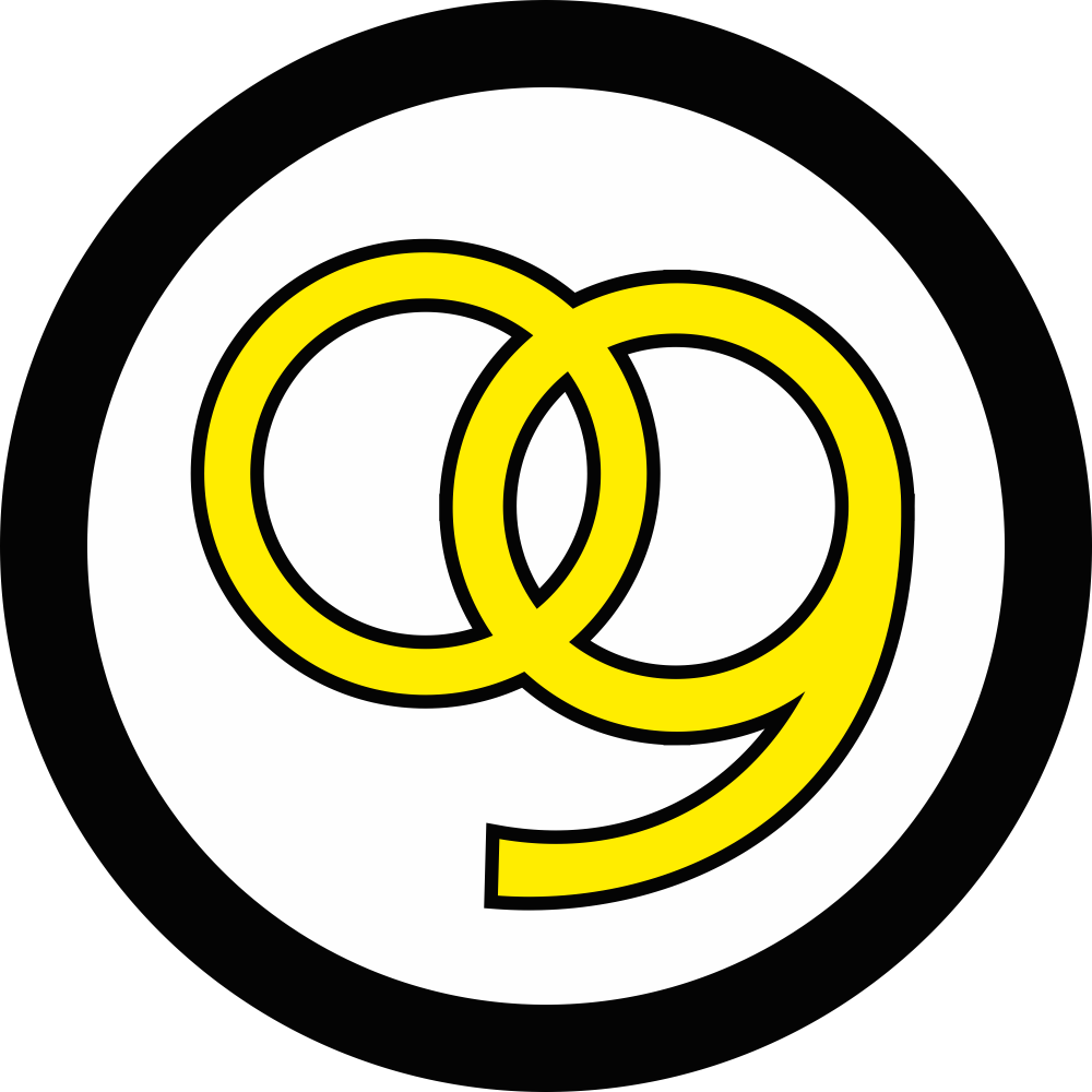 Logo of former german footballclub Beuthener SuSV 09 (1909 - 1945)